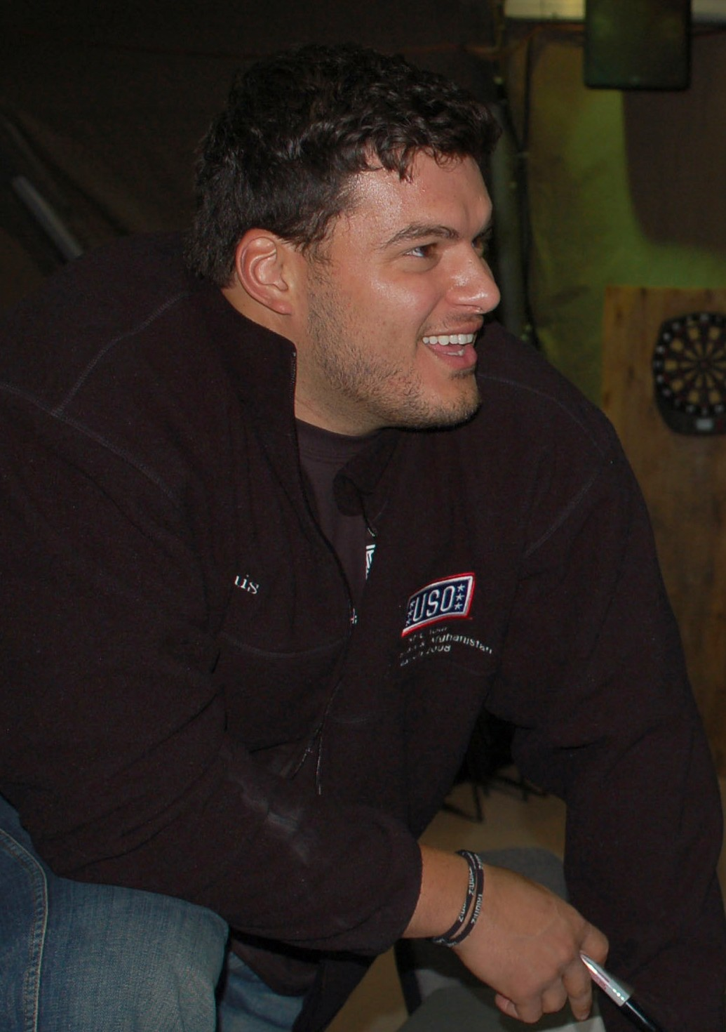 San Diego Chargers Luis Castillo chats with 1st Lt. Steven Falusi March 4 at the recreation center on Manas Air Base, Kyrgyzstan. Castillo, Chicago Bears Tommie Harris, Carolina Panthers Mike Rucker and Sports Illustrated writer Peter King took part in the United Service Organizations National Football League tour to visit servicemembers supporting the war. Lieutenant Falusi, assigned to the 376th Expeditionary Security Forces Squadron, is a Connecticut Air National Guard member.